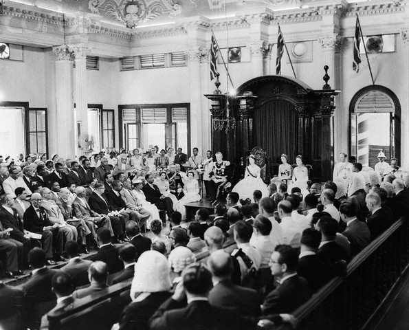 The inauguration of the West Indies Federation by Princess Margaret in Port of Spain, Trinidad and Tobago